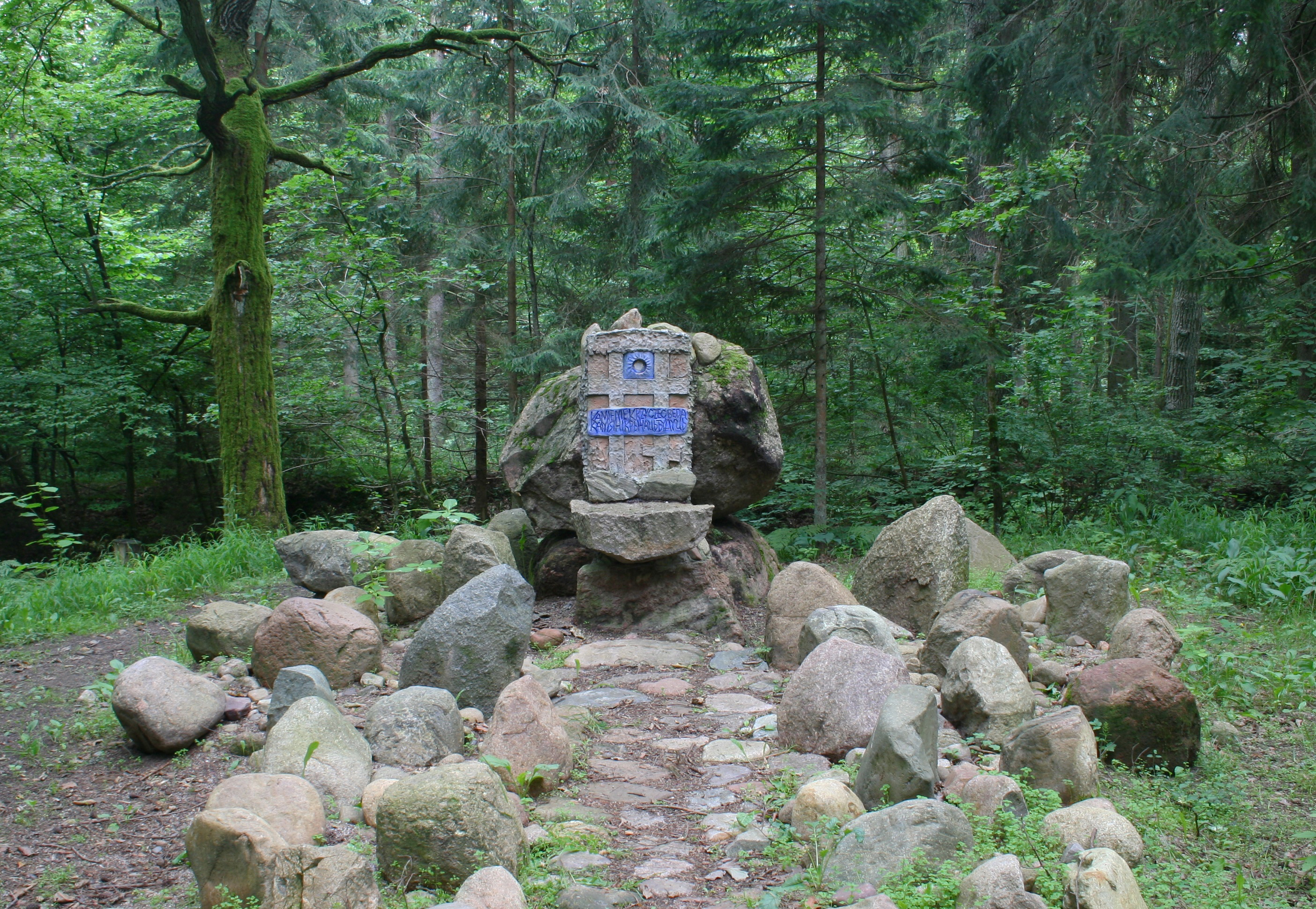 Monument "The stones will cry out" in Hajnówka